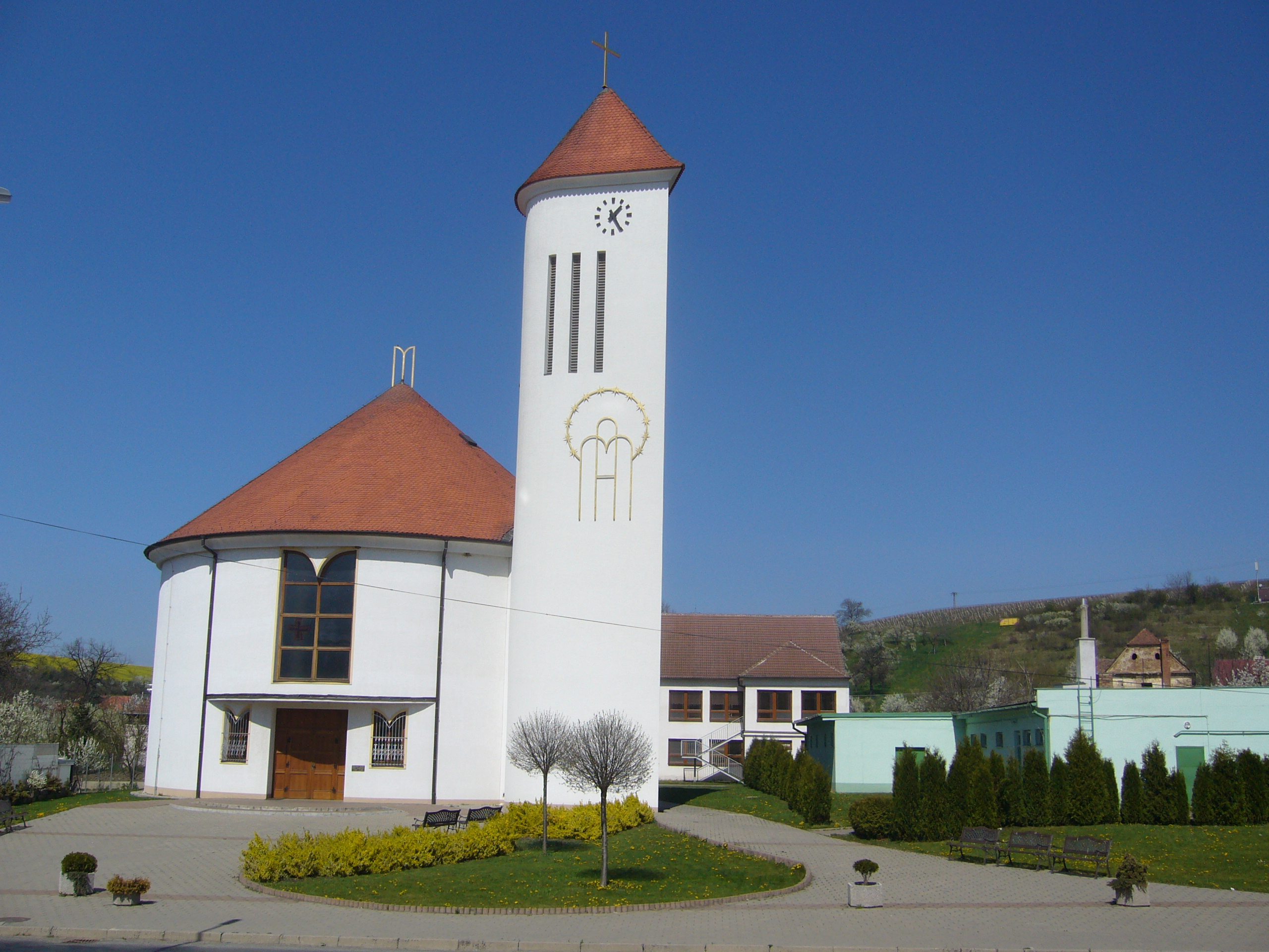 New Church of Our Lady of the Rosary built in 1999.